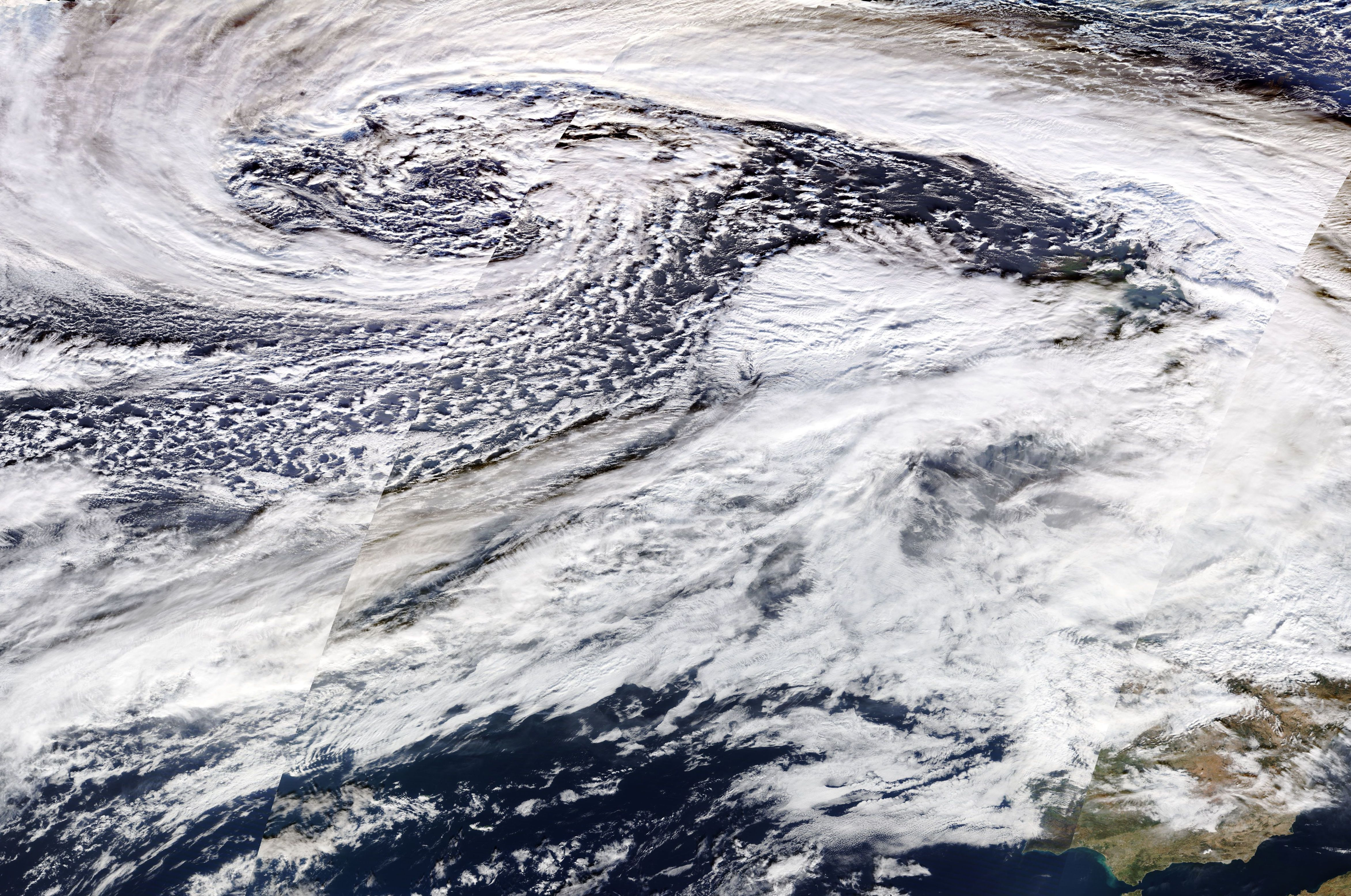 Storm Eleanor of the 2017-18 UK and Ireland windstorm season approaching the British Isles on 2 January 2018.